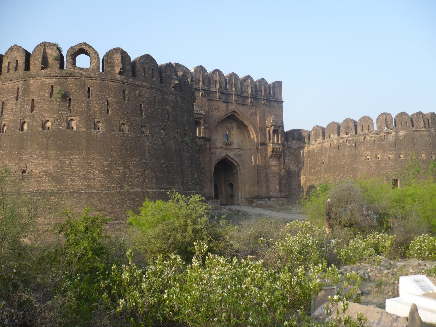 Sohail Gate Rohtas Fort Jhelum